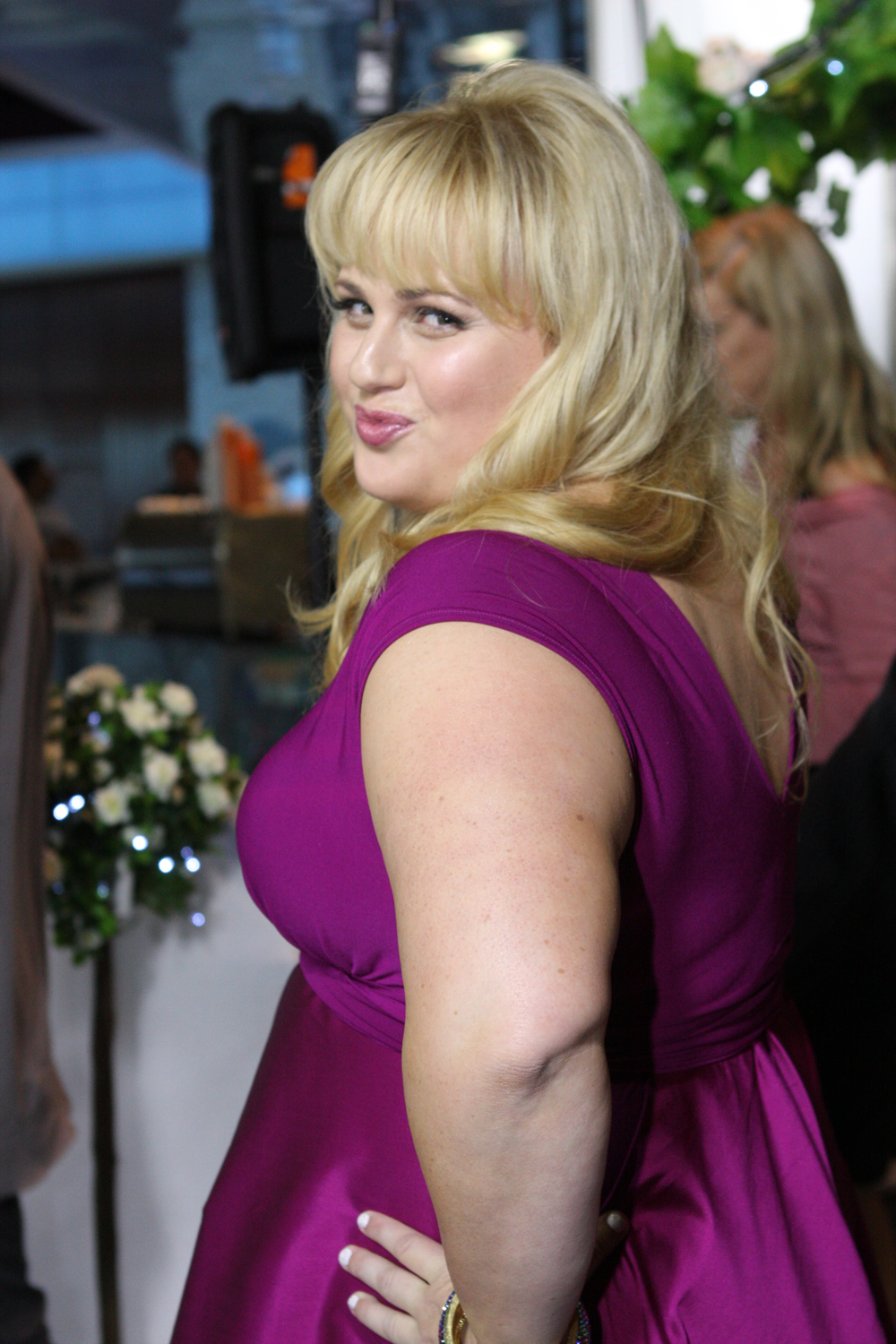 A Few Best Men Red Carpet Movie Premiere In Sydney, Australia A Few Best Men enjoyed its Sydney red carpet premiere earlier this evening at Bondi Junction's Event Cinema. In essence, it's a a comedy about a groom and his three best men who travel to the Australian outback for a wedding. The flick has numerous Sydney based media men and women tipping that this may be just the start of a reinvigoration of Olivia Newton-John's acting career, but its really too early to know for sure. Maybe O-N-J and her agent know something we don't. Twilight Eclipse hunk Xavier Samuel stars as the film's hapless bridegroom. British thespians Kris Marshall (Death At A Funeral) Kevin Bishop (Spanish Apartment), and Australian comedy star Rebel Wilson was there, as was Laura Brent (Chronicles of Narnia), Steve Le Marquand (Beneath Hill 60) and Tangle actor Tim Draxl. Even local MP Malcolm Turnbull and wife Lucy showed up in support. The flick, which was filmed in Sydney and the Blue Mountains, is hoped to be a return to form for Elliott, who has had mixed success since his 1994 smash hit The Adventures of Priscilla: Queen of the Desert. It's quite an unlikely acting platform for Newton-John, who many film industry commentators say her last decent film role was alongside John Travolta in Two of a Kind back in 1983. Elliott told the media that the Aussie singer/actress has fitted in well with the rest of the cast. "She's great. Everyone's coming together really well and she's really getting into it," he said. A Few Best Men opens in cinemas nationally on January 26, 2012. Director: Stephan Elliott Writers: Dean Craig Stars: Rebel Wilson, Olivia Newton-John and Xavier Samuel Websites A Few Best Men official website Icon Film Distribution Event Cinemas Nix Co Eva Rinaldi Photography Flickr Eva Rinaldi Photography Splash News Music News Australia